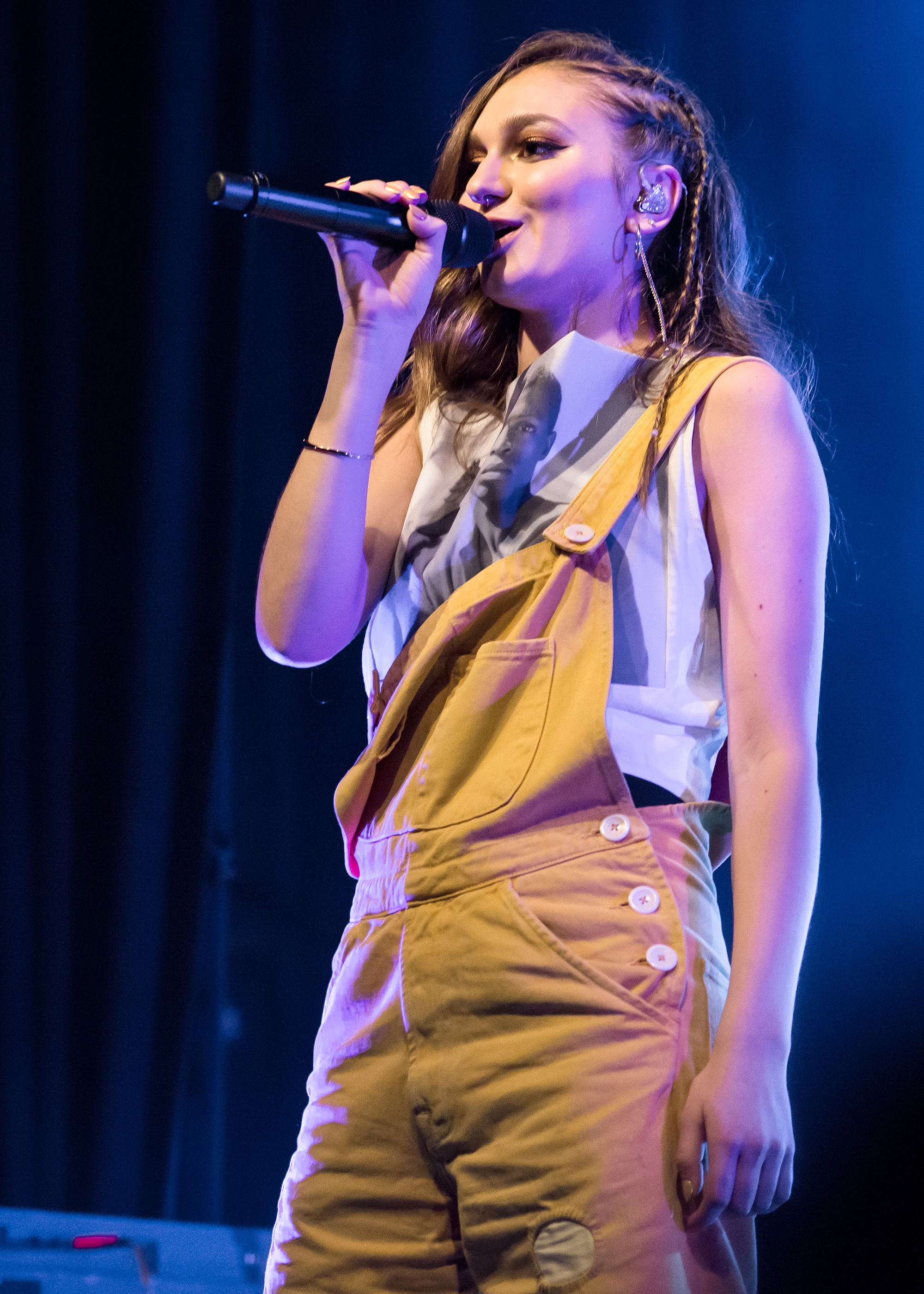 Daya at the El Rey Theatre.